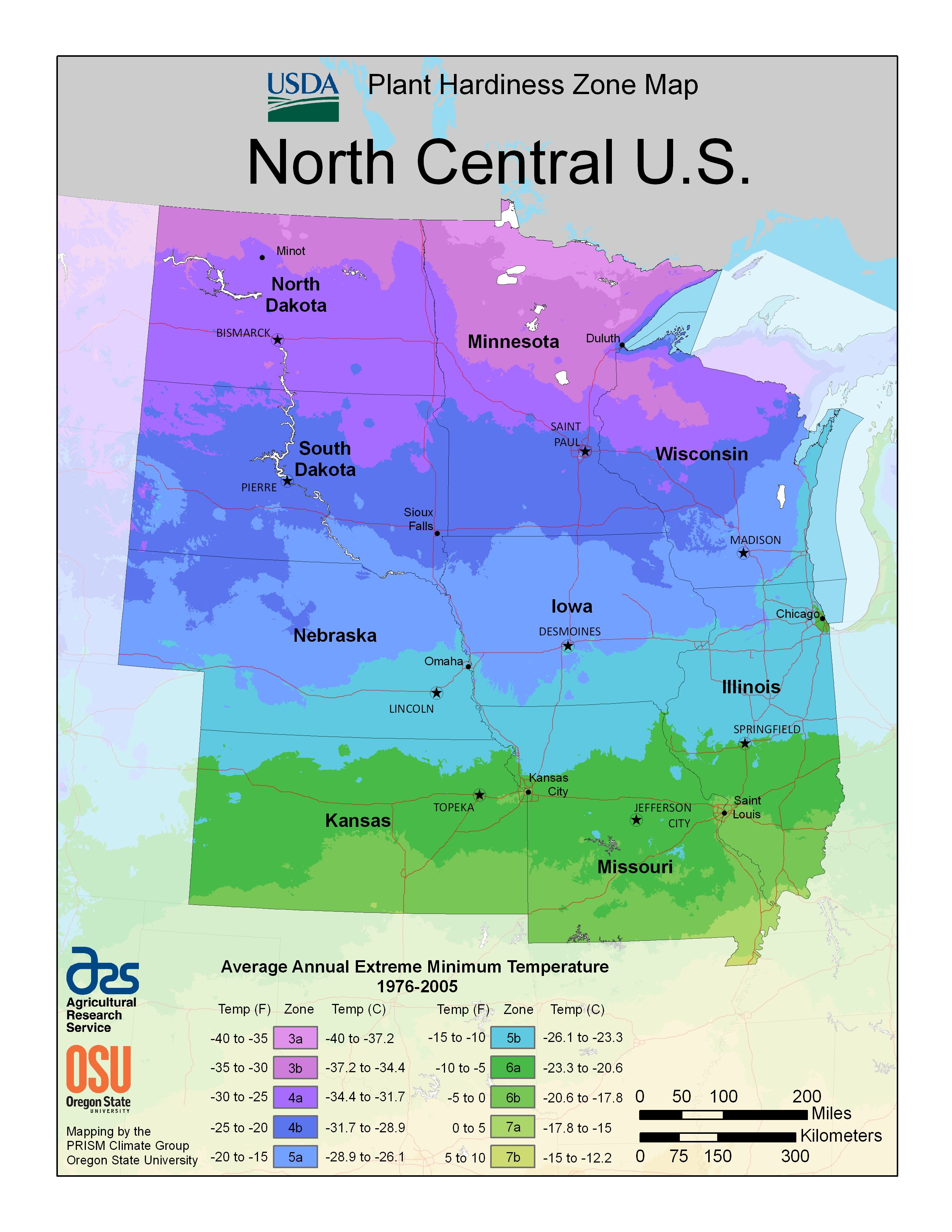 USDA plant hardiness zone map (updated 2012) of the north central US (North Dakota, South Dakota, Nebraska, Kansas, Missouri, Iowa, Minnesota, Wisconsin, and Illinois)